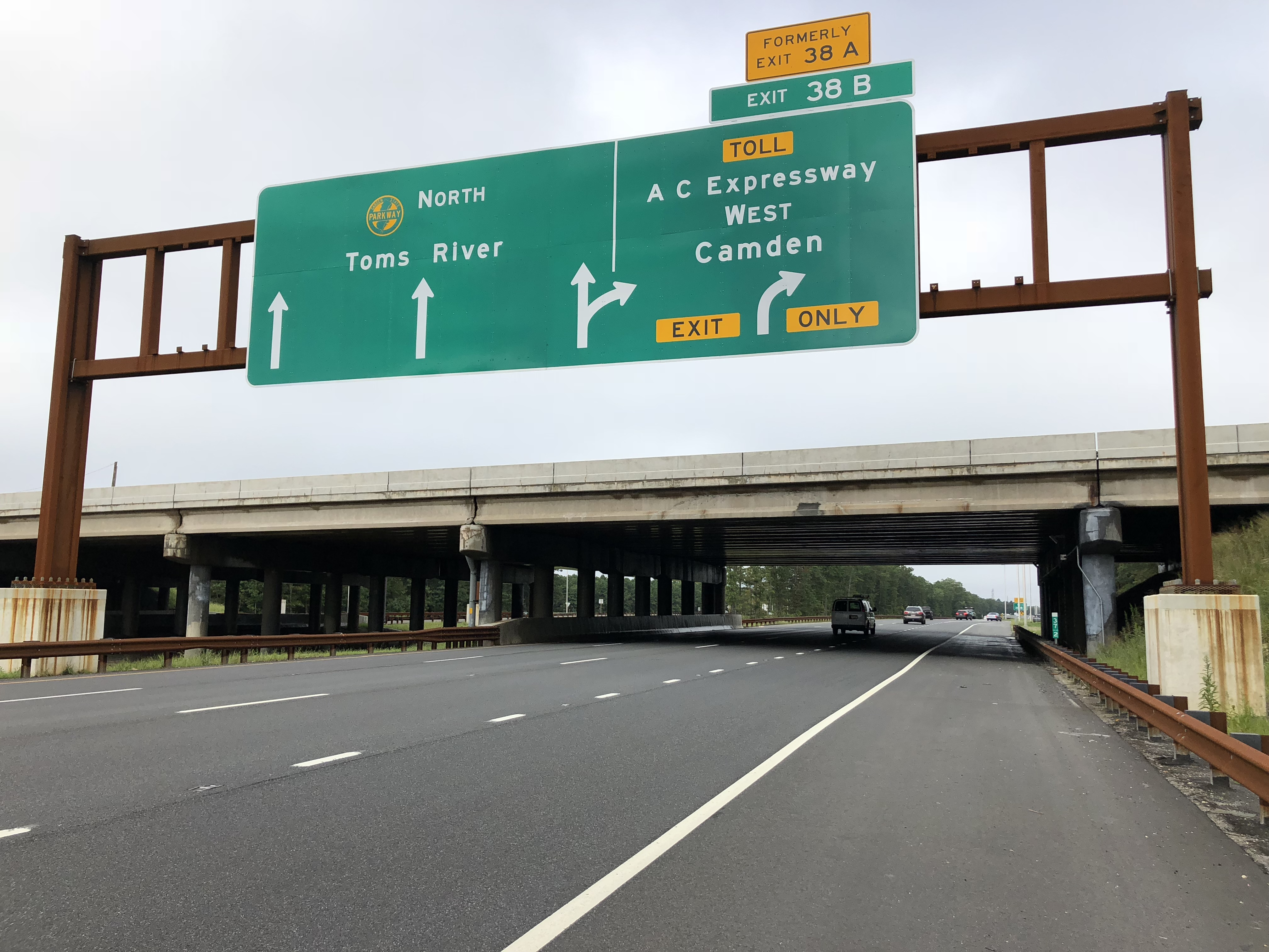 View north along New Jersey State Route 444 (Garden State Parkway) at Exit 38B (Atlantic City Expressway WEST, Camden) in Egg Harbor Township, Atlantic County, New Jersey